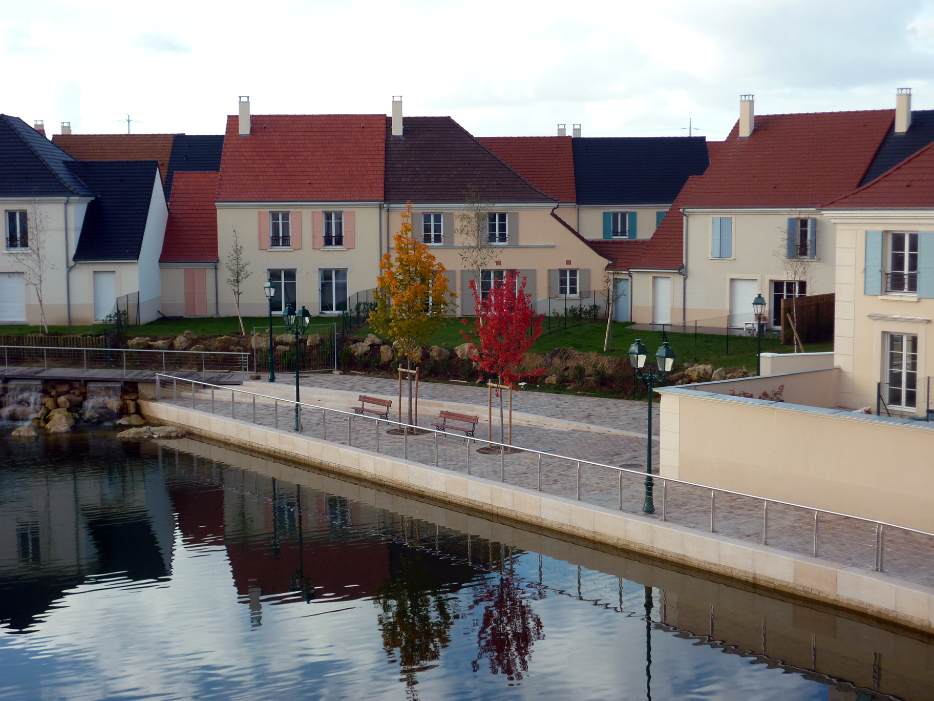 Saint-Eloi district, Wissous, France